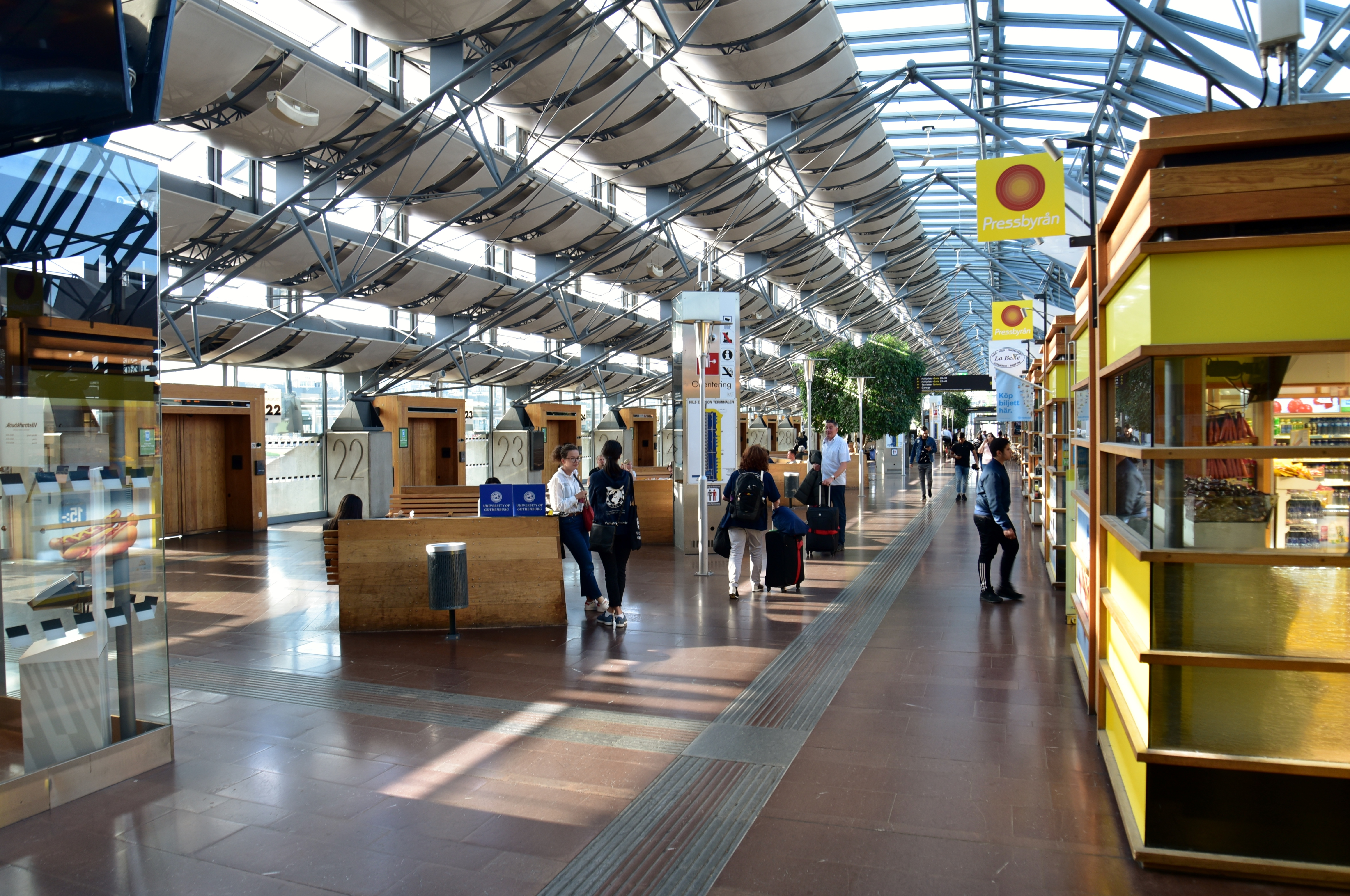 View of the interior of the Nils Ericson Terminal, Gothenburg, Sweden